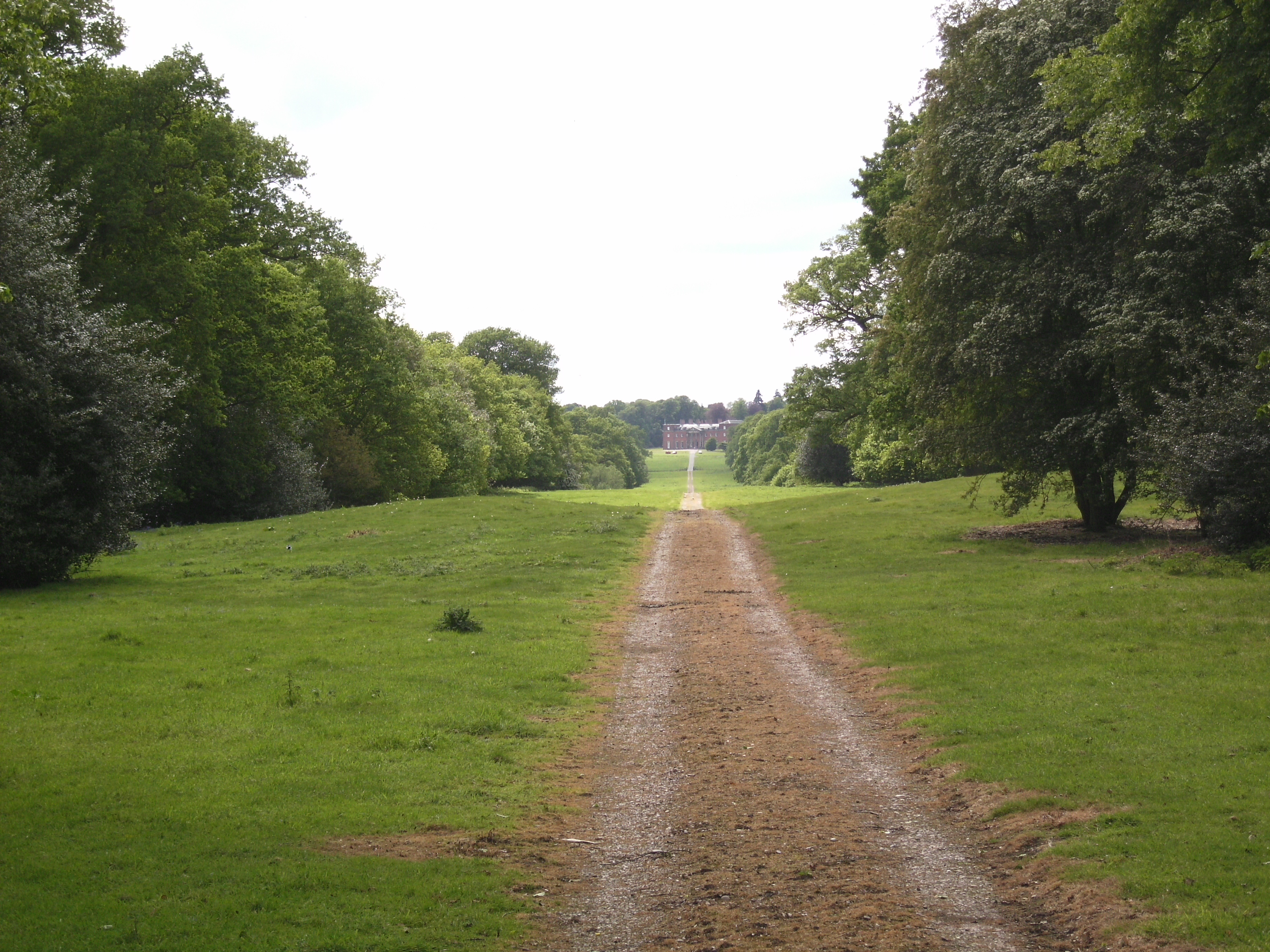 Chillington Hall, Brewood, Staffordshire, viewed along the entire length of the Upper Avenue, a 2km long Georgian entrance drive.